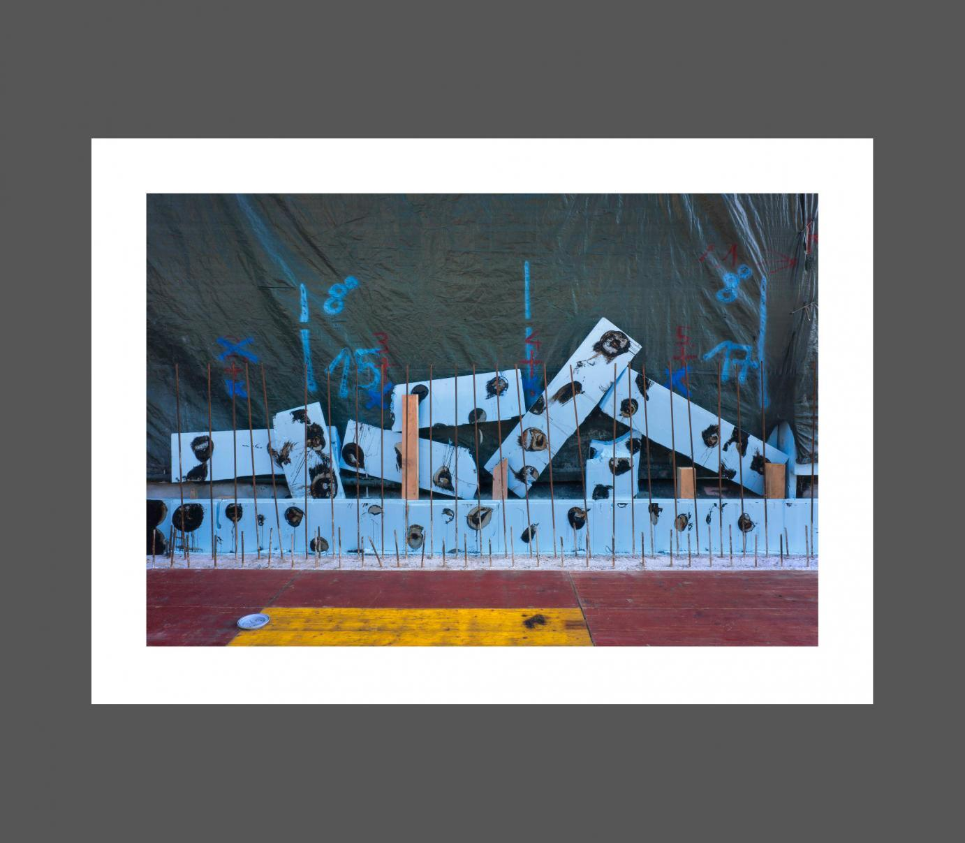 Sites by Ulrich Hensel, Am Mühlenturm, 2008, 180 cm x 242,6 cm, C-Print Diasec